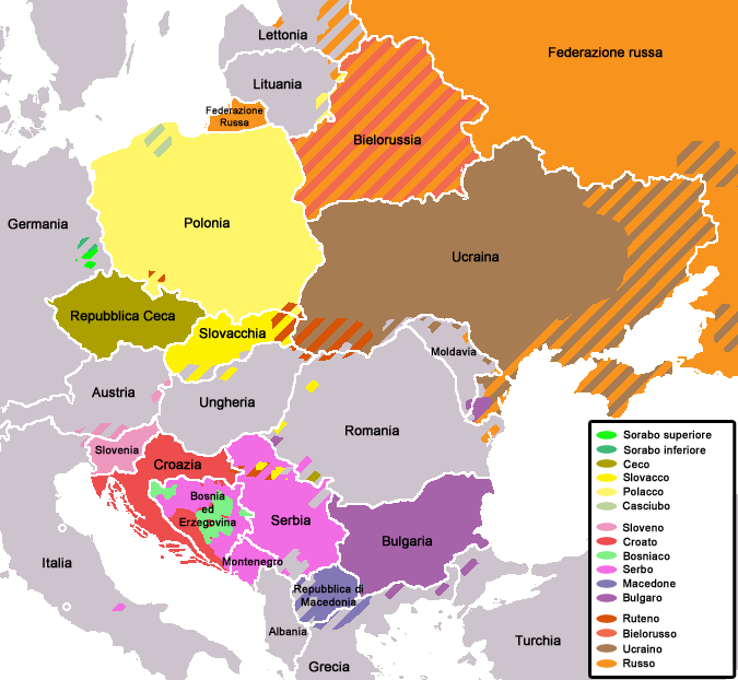 Slavic language map for Italian readers.